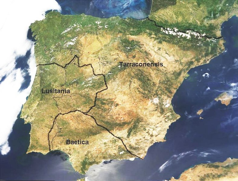 Iberian Peninsula under Octavius Caesar Augustus (29-19 a. J. C.), after the Cantabrians Wars. Original image Hispania1.JPG by J.A.Freyre. Brightness-enhanced by User:Jorge Stolfi on 2006-01-31. Released into the public domain.